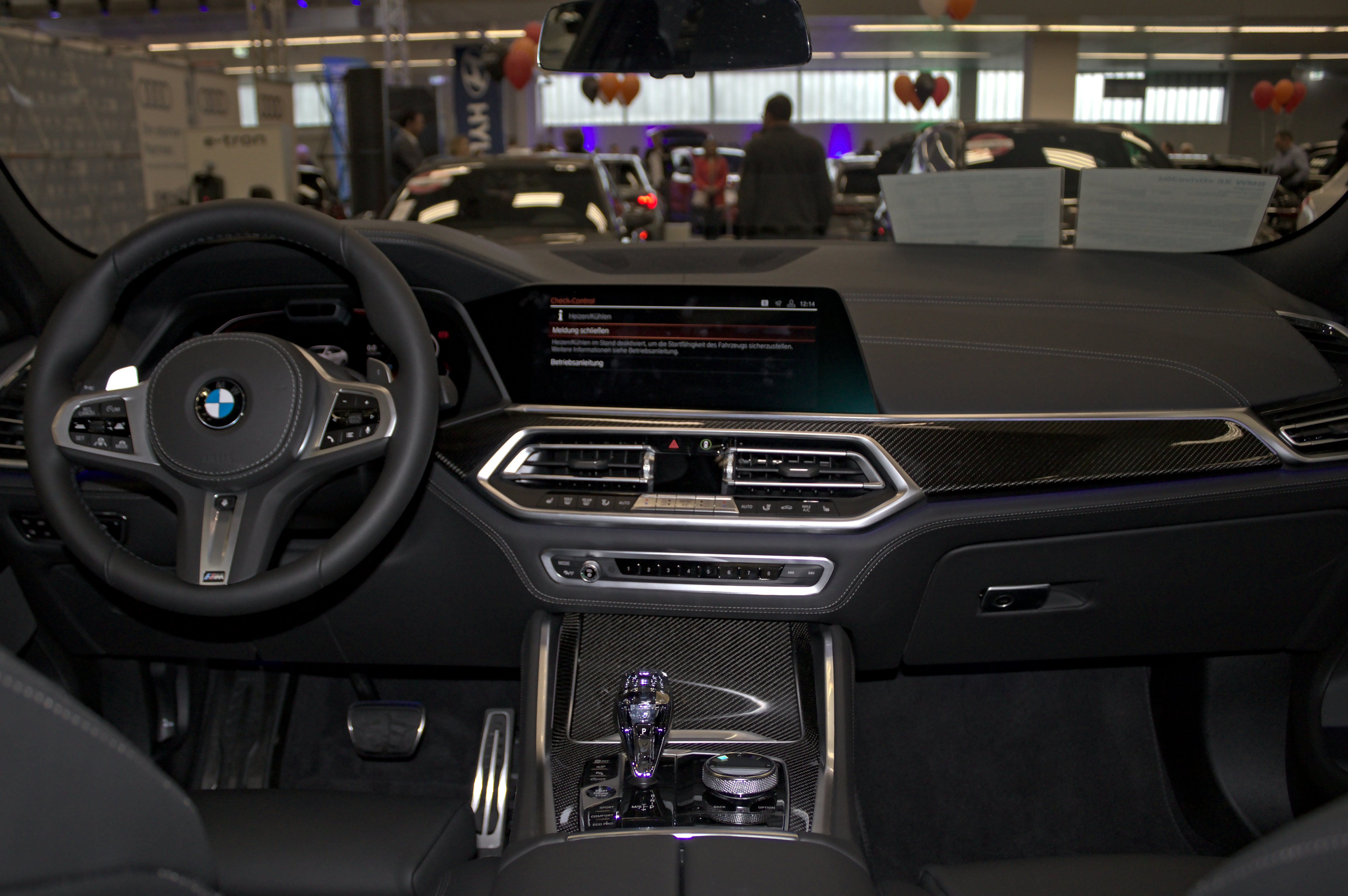 BMW_G06_Sindelfingen_2020